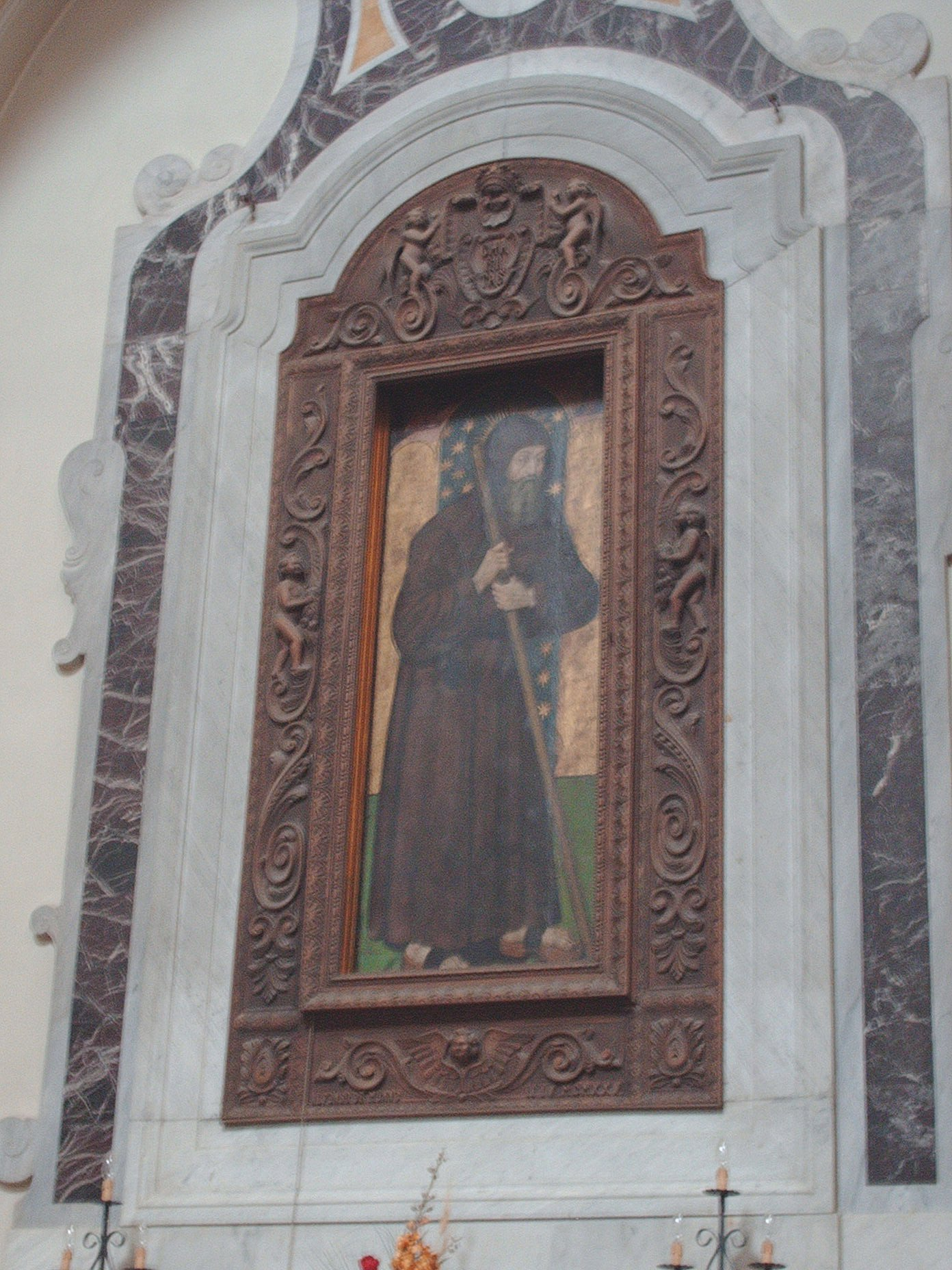 Portrait of Francis of Paola